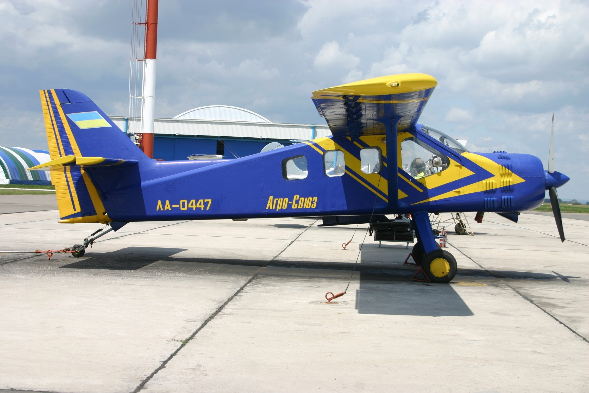 At Maiskoye